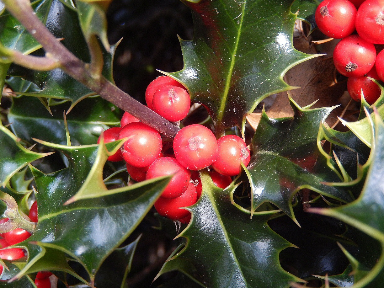 Holly leaves and berries at Kew Gardens